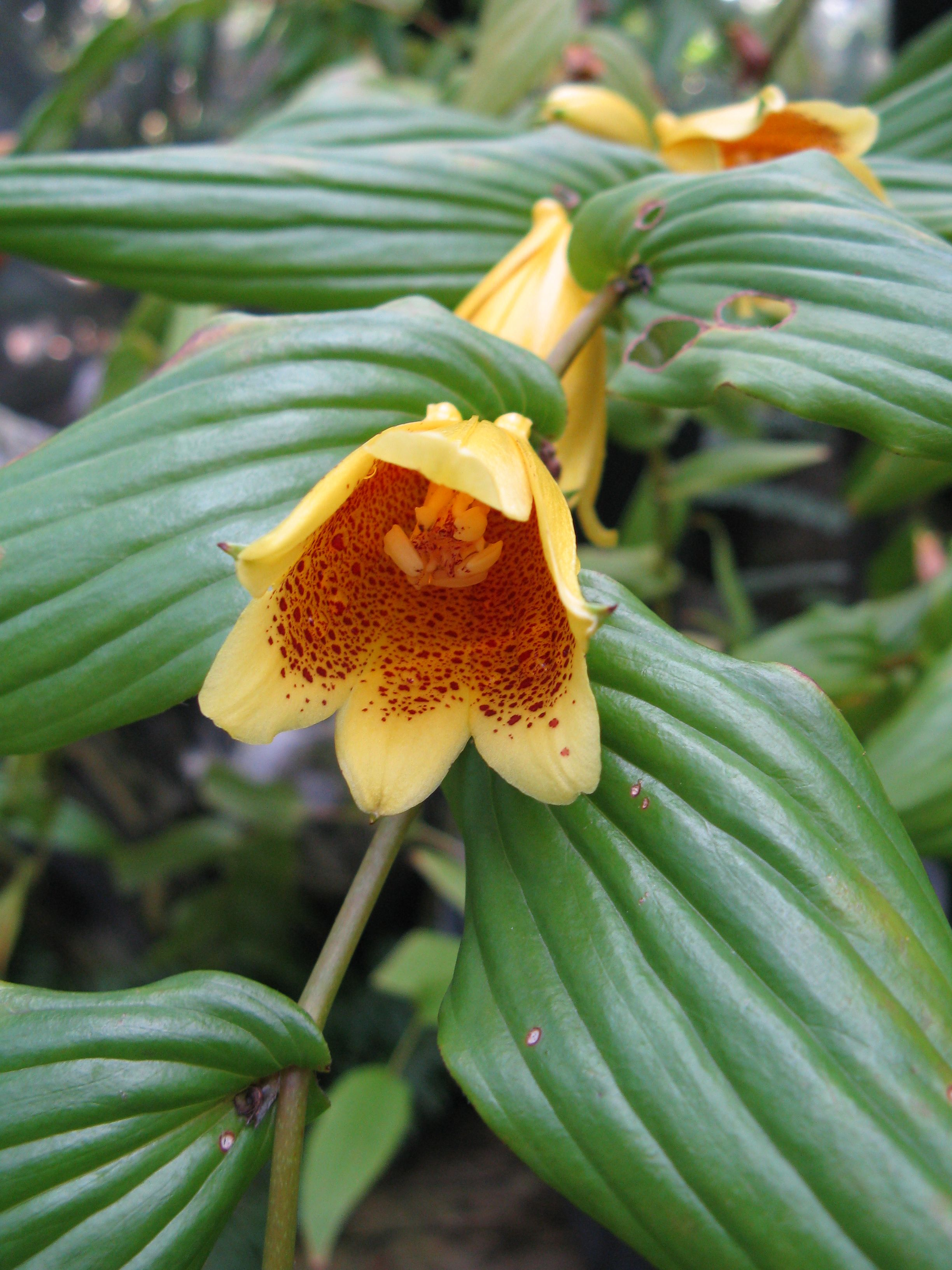 Tricyrtis macranthopsis